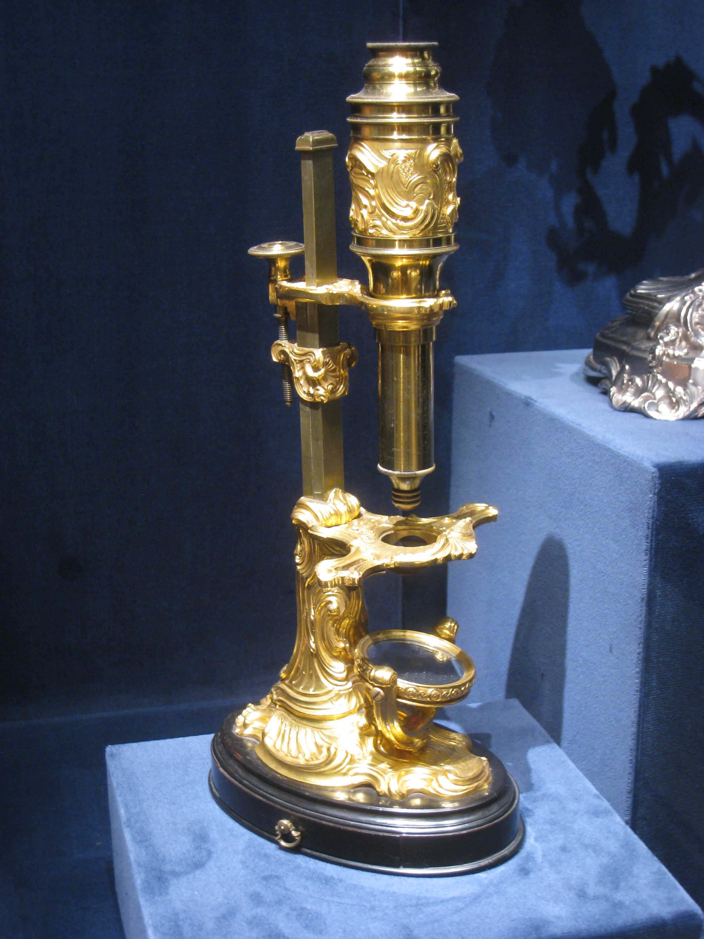 French microscope circa 1745-65, on display in the Cleveland Museum of Art, Cleveland, Ohio, USA. There was no prohibition against photography in the museum. I took this photograph.